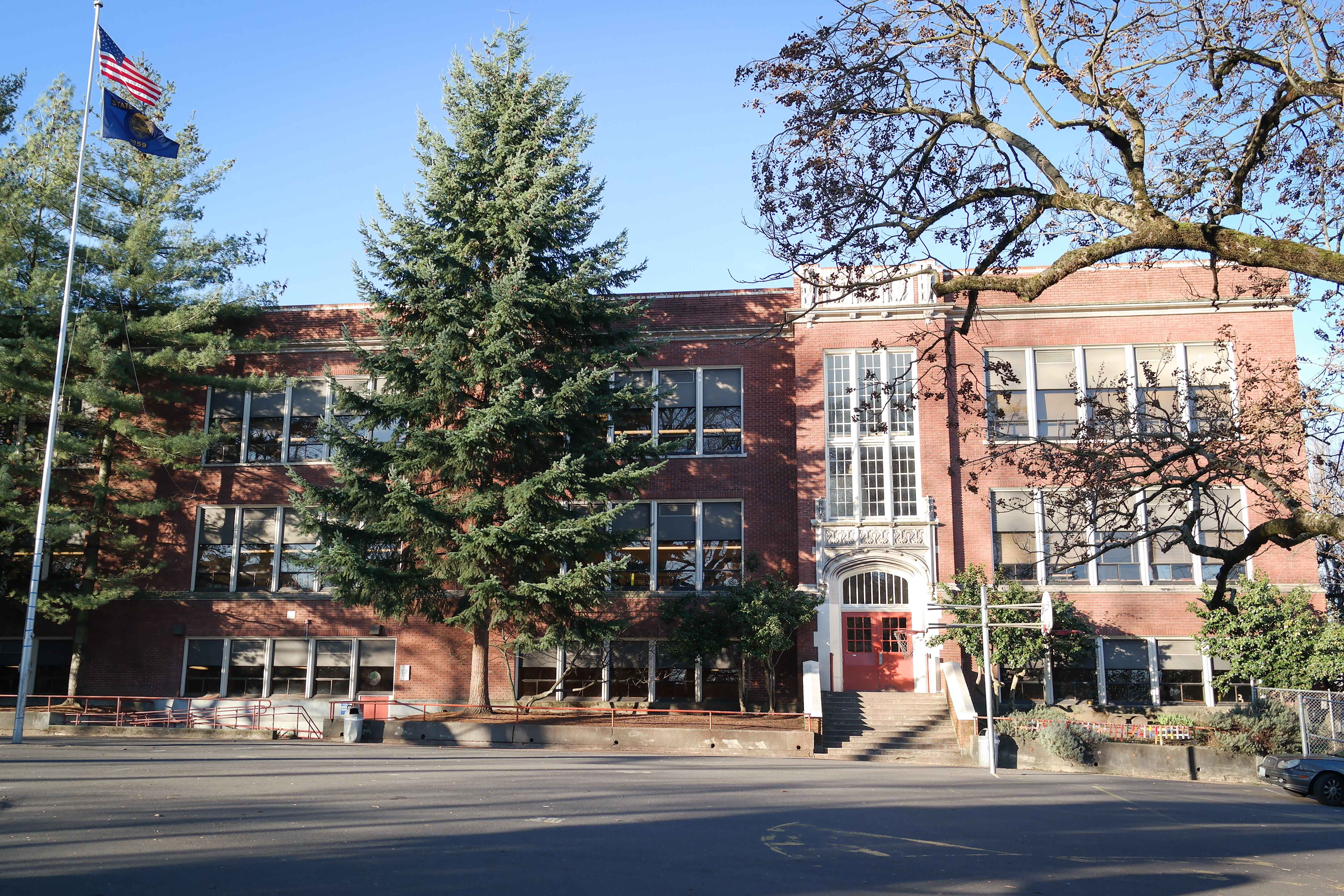 The Couch School in northwest Portland, Oregon, is now known as the Metropolitan Learning Center